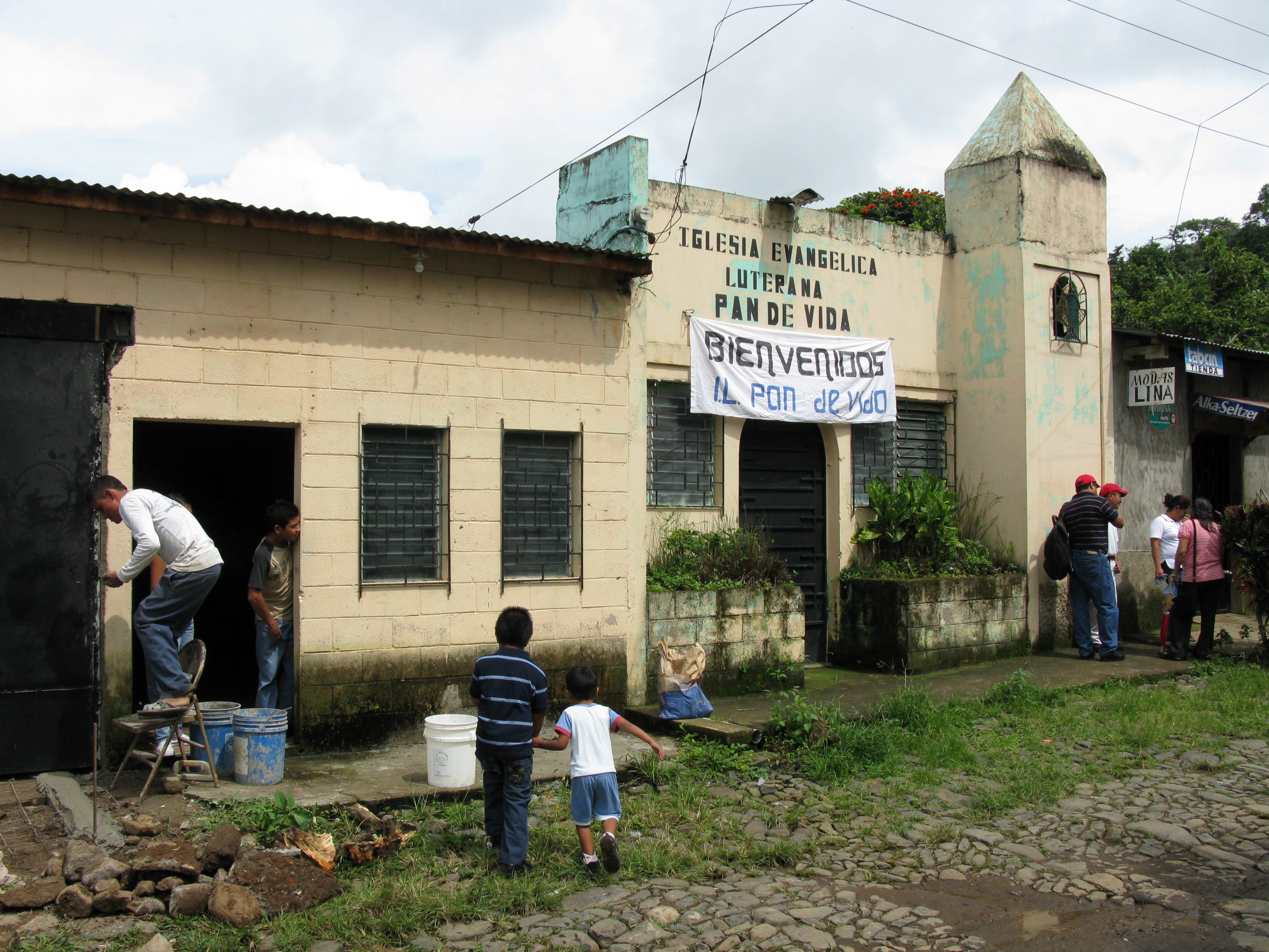 Pan de Vida Lutheran Church in Jayaque, La Libertad, El Salvador